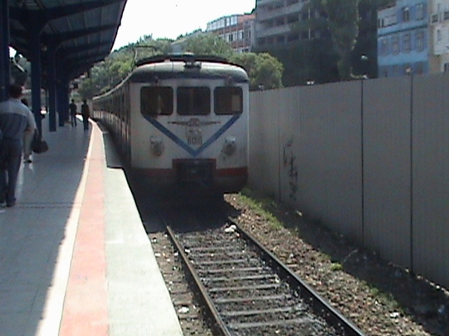 A E8000 EMU arriving at Sirkeci station in İstanbul.